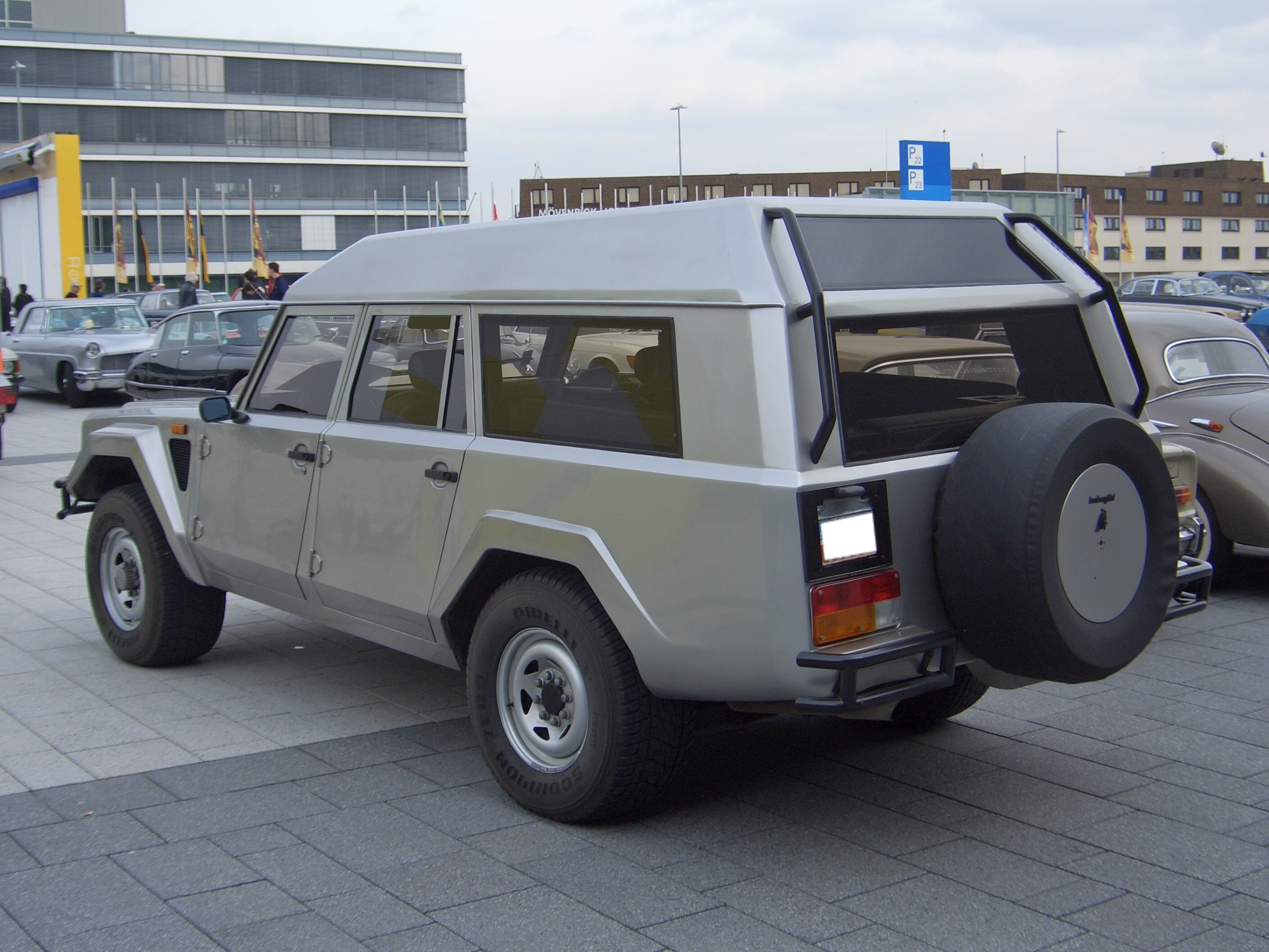 Lamborghini LM 002, estate conversion for the Sultan of Brunei, 1989, seen at Retro Classics fair in Stuttgart, Germany